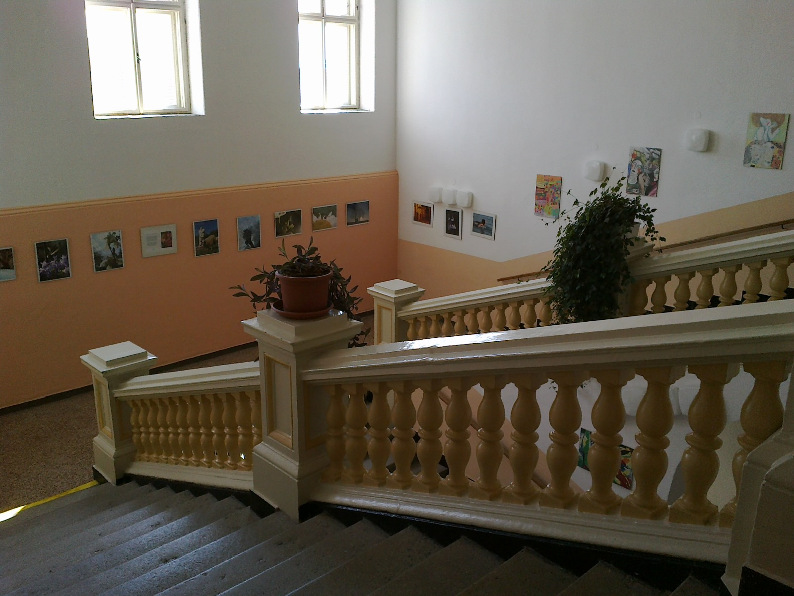 School in Znojmo